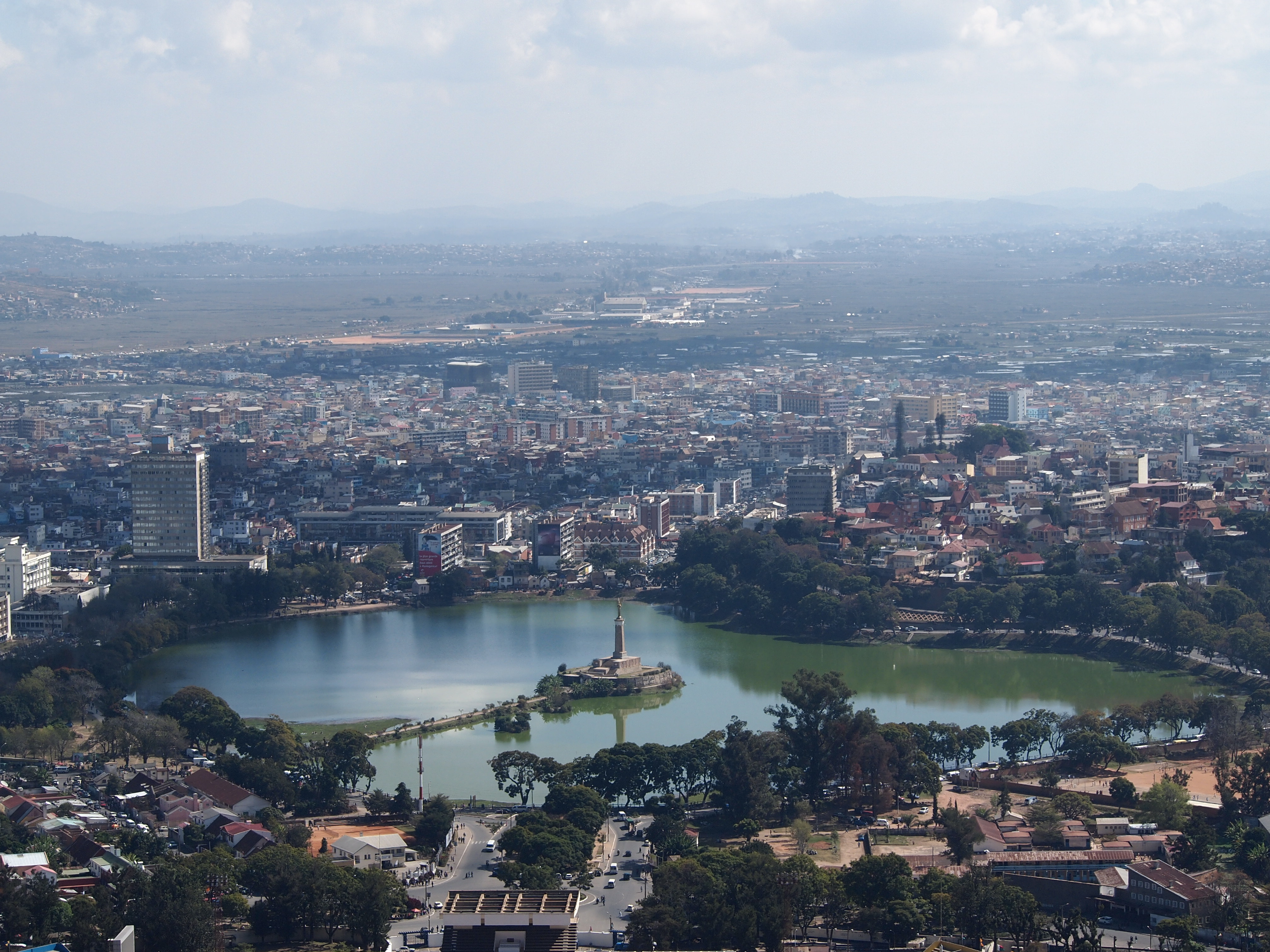 View of lake anosy in Antananarivo Madagascar 2013